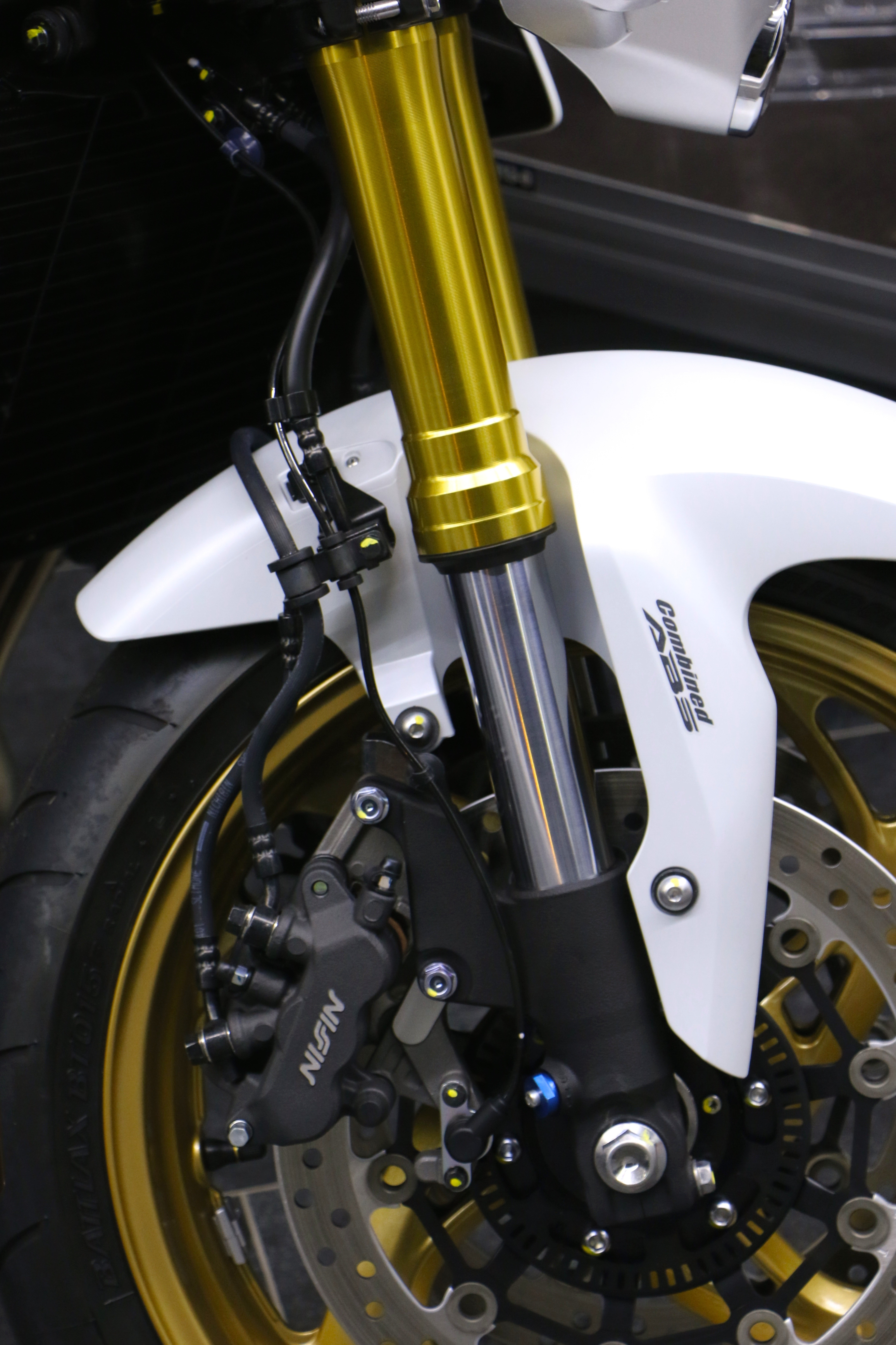 Combined braking system in a motorcycle front wheel